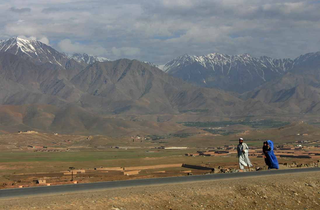 Man and woman (holding her child) walking by the road in northern Afghanistan